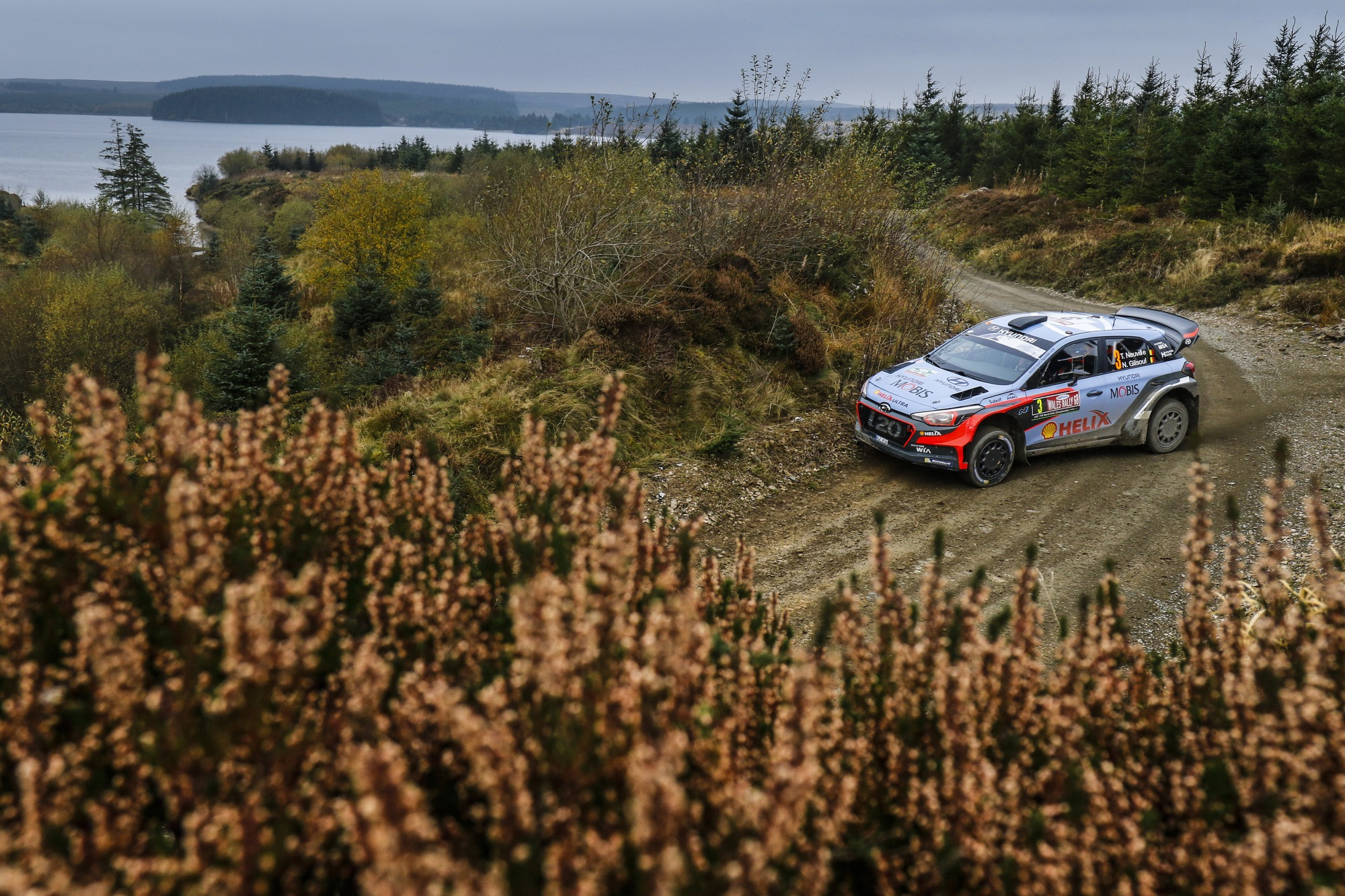 Thierry Neuville and co-driver Nicolas Gilsoul in their Hyundai i20 at the 2016 Wales Rally GB.